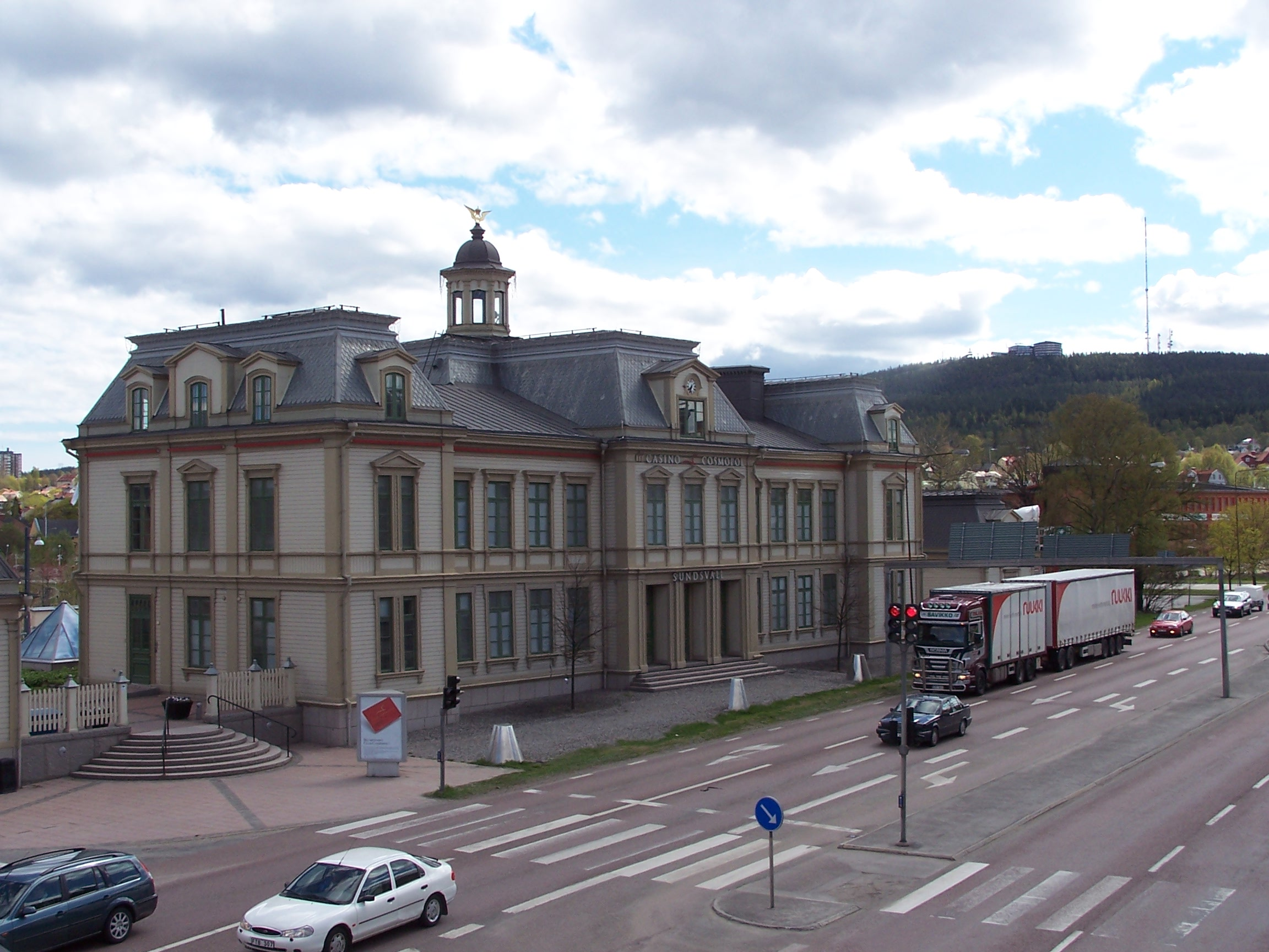 Casino Cosmopol in Sundsvall, Sweden